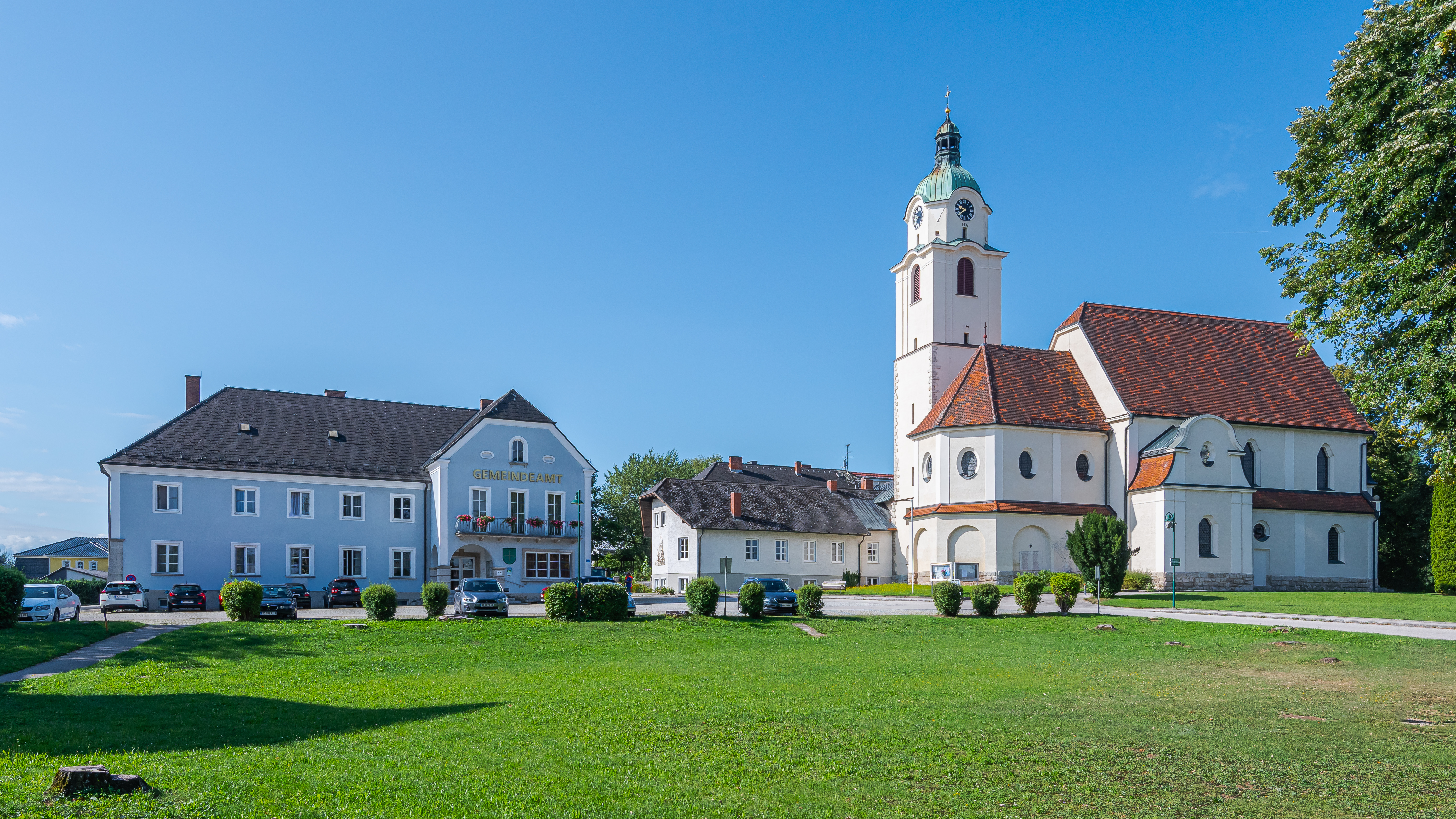 At the market place of Sattledt in Upper Austria there are the town hall and the parish church of saint Stephanus.